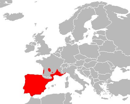 Range map of Timon lepidus.